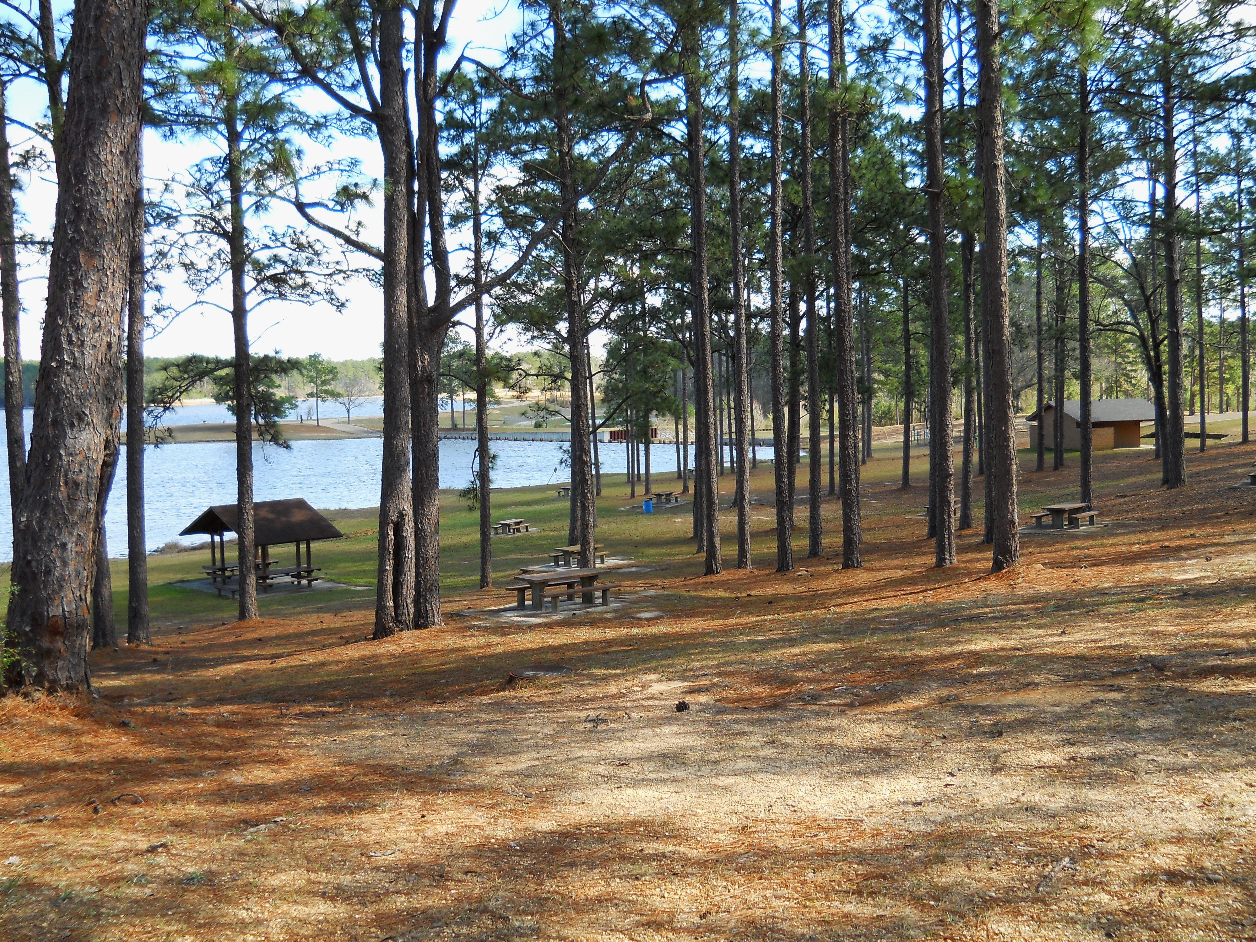 Picnic area at Paul B. Johnson State Park, Forrest County, Mississippi, USA.